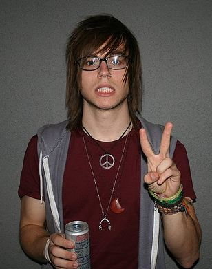 Jordan Witzigreuter of The Ready Set at the Knitting Factory in Hollywood, CA.